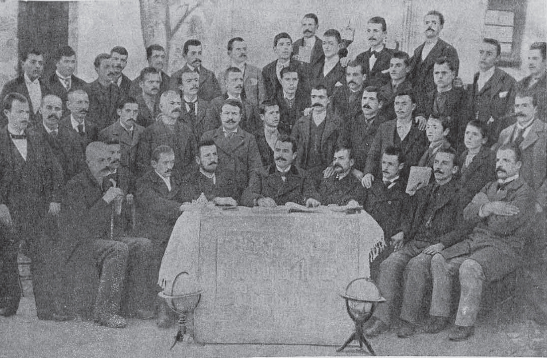 Bulgarian teachers in Krushevo